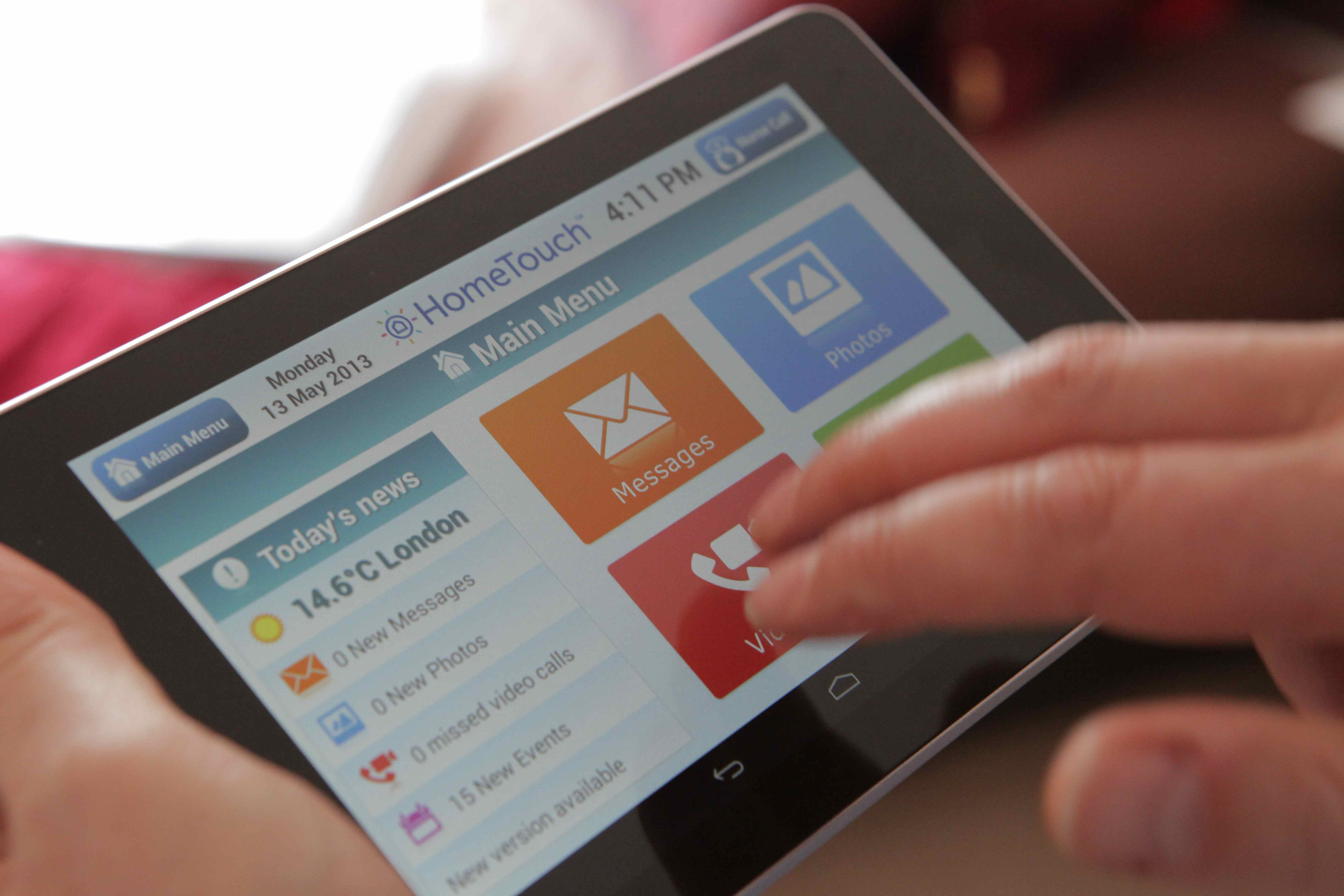 Modern Telecare Tablet Application For use on